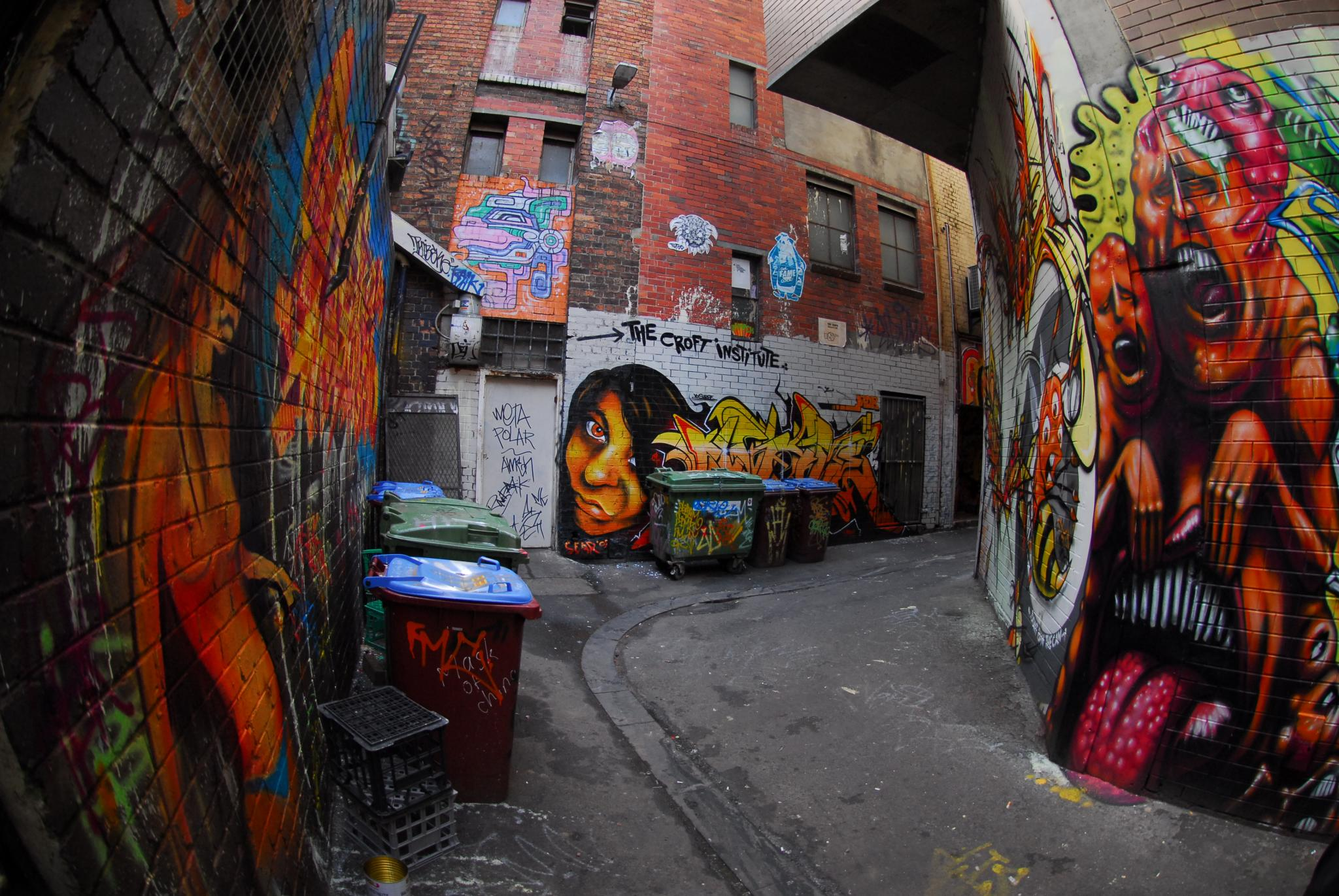 Got to town early so went for a walk before coming to this morning's conference... this is what I saw...